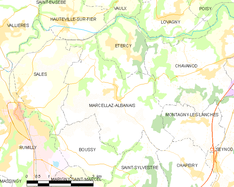 Map of French municipality Marcellaz-Albanais